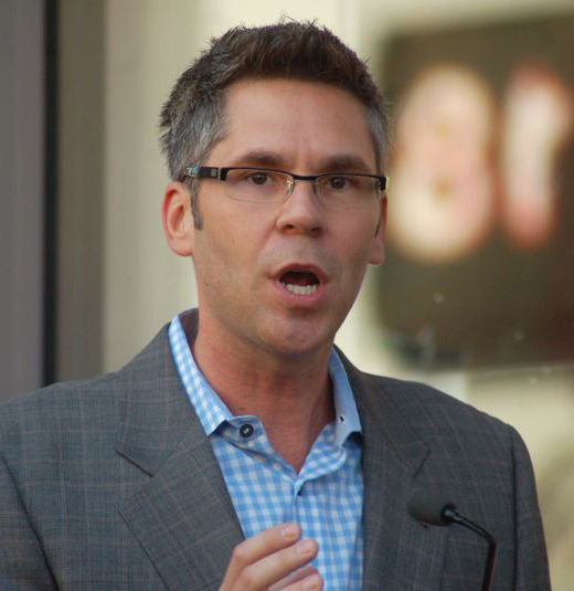 John Henson at a ceremony for Jon Cryer to receive a star on the Hollywood Walk of Fame in September 2011.